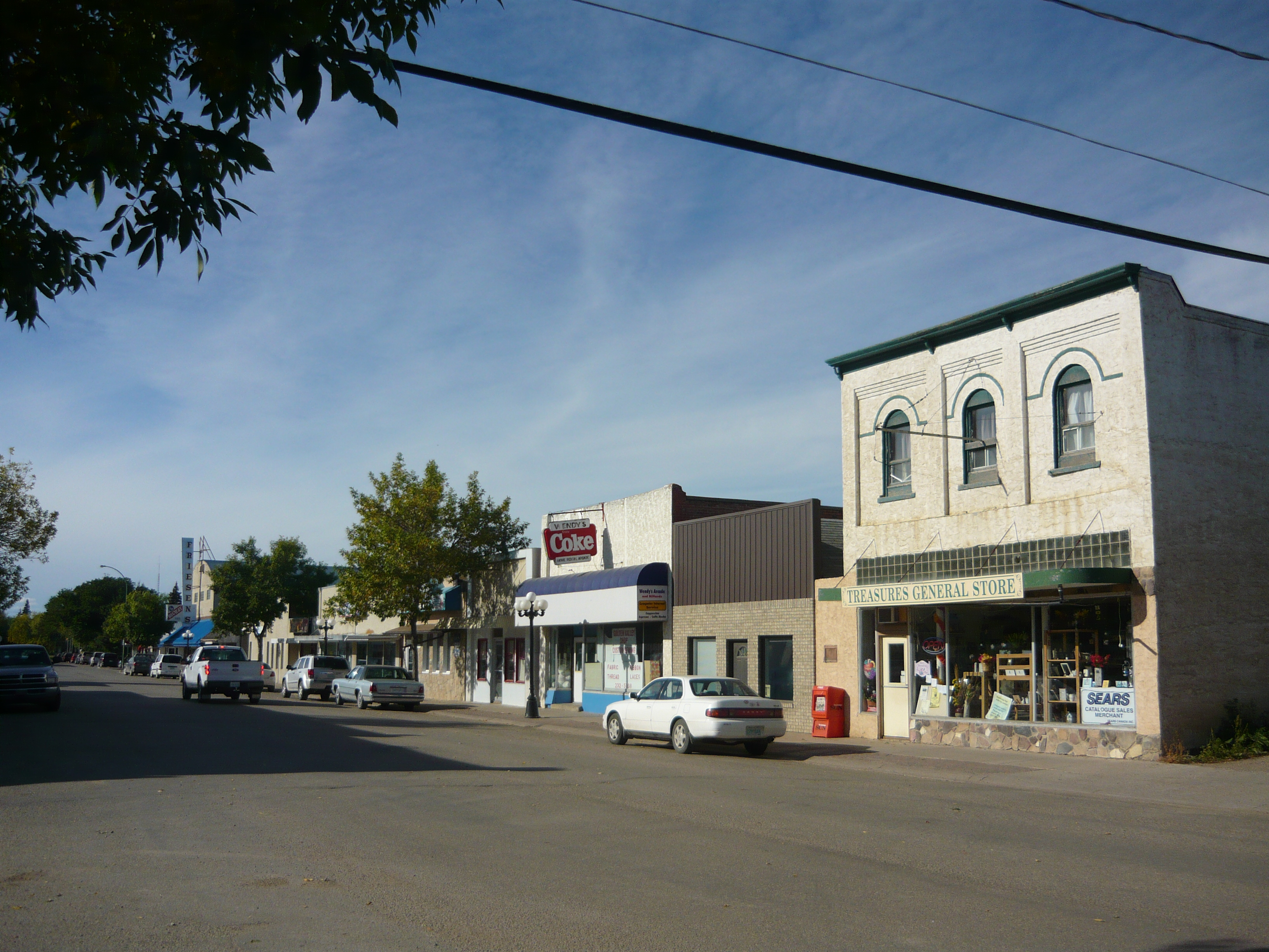 Business district of Rosthern, Saskatchewan, Canada. Photo taken from intersection of Railway Avenue and Sixth Street, looking northwestward along Sixth Street.